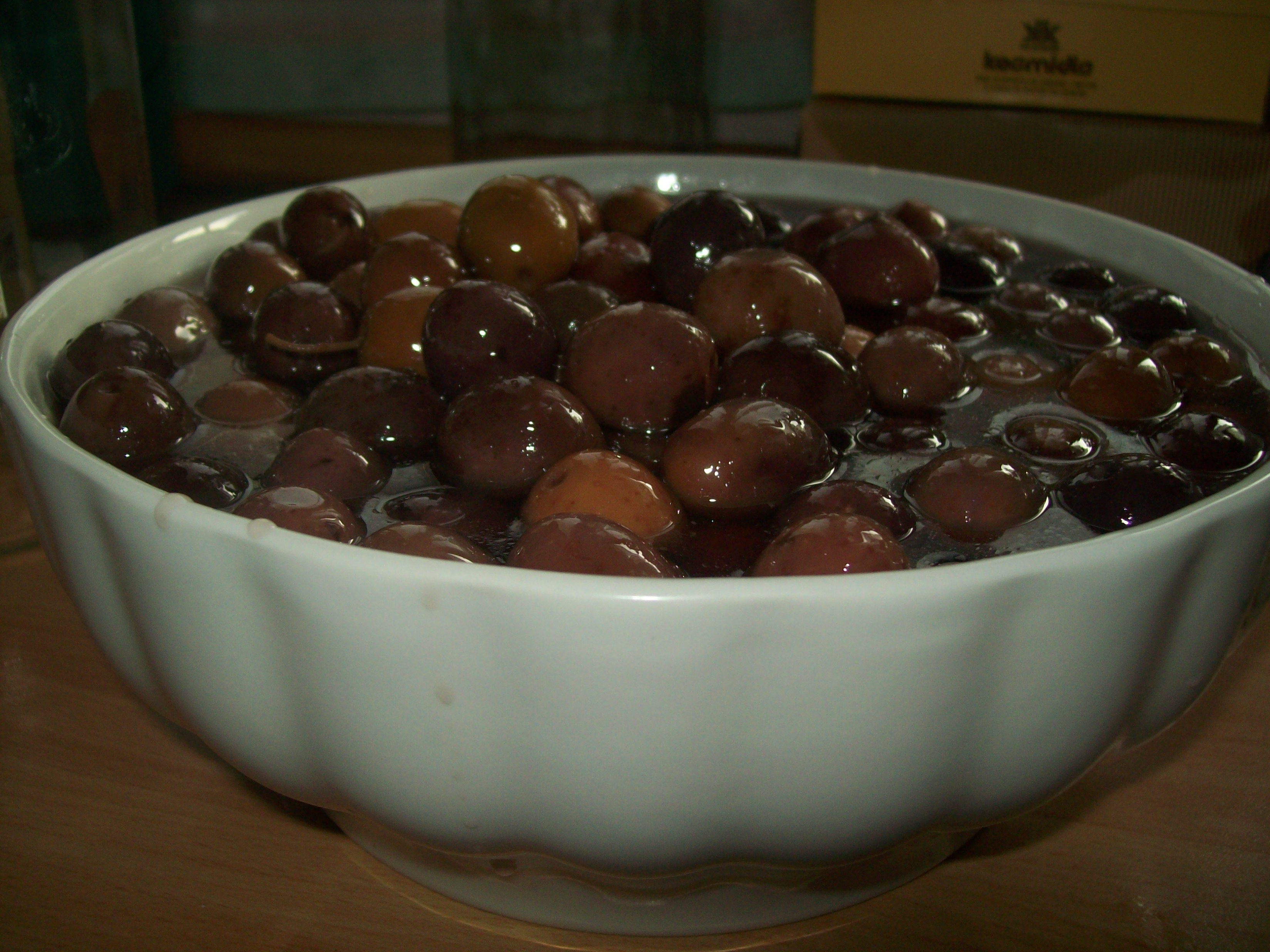 A bowl of Greek olives